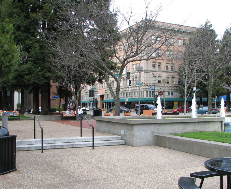 This is Old Courthouse Square, the heart of downtown Santa Rosa. The central building is the Rosenberg Building, constructed in 1922.